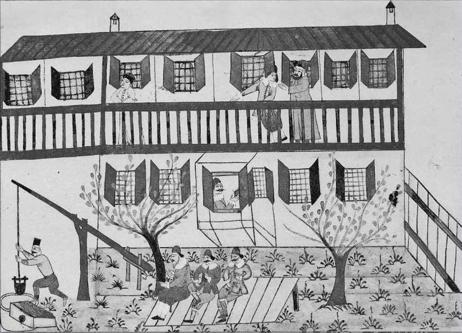 The Venetian bailo’s house (with young dragomans on the balcony), osman muniature. Published in "Alt Stambuler Hof-und Volksleben: Ein Türkisches Miniaturen Album aus dem 17". Jahrhundert, Hanover: Orient-Buchhandlung H. Lafaire,1925